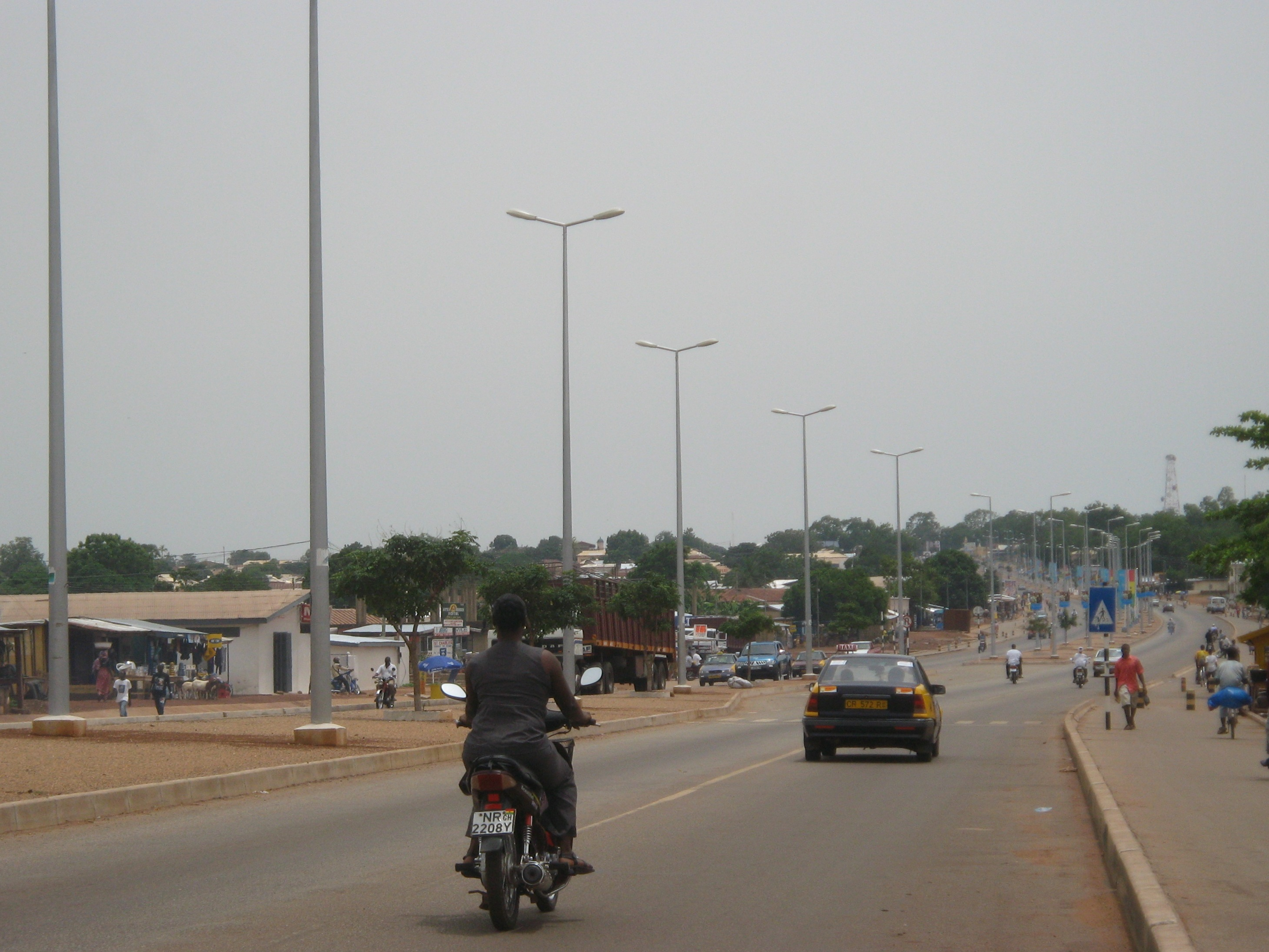 This picture is a view of the Bolgatanga-Salaga road in Tamale, Ghana.